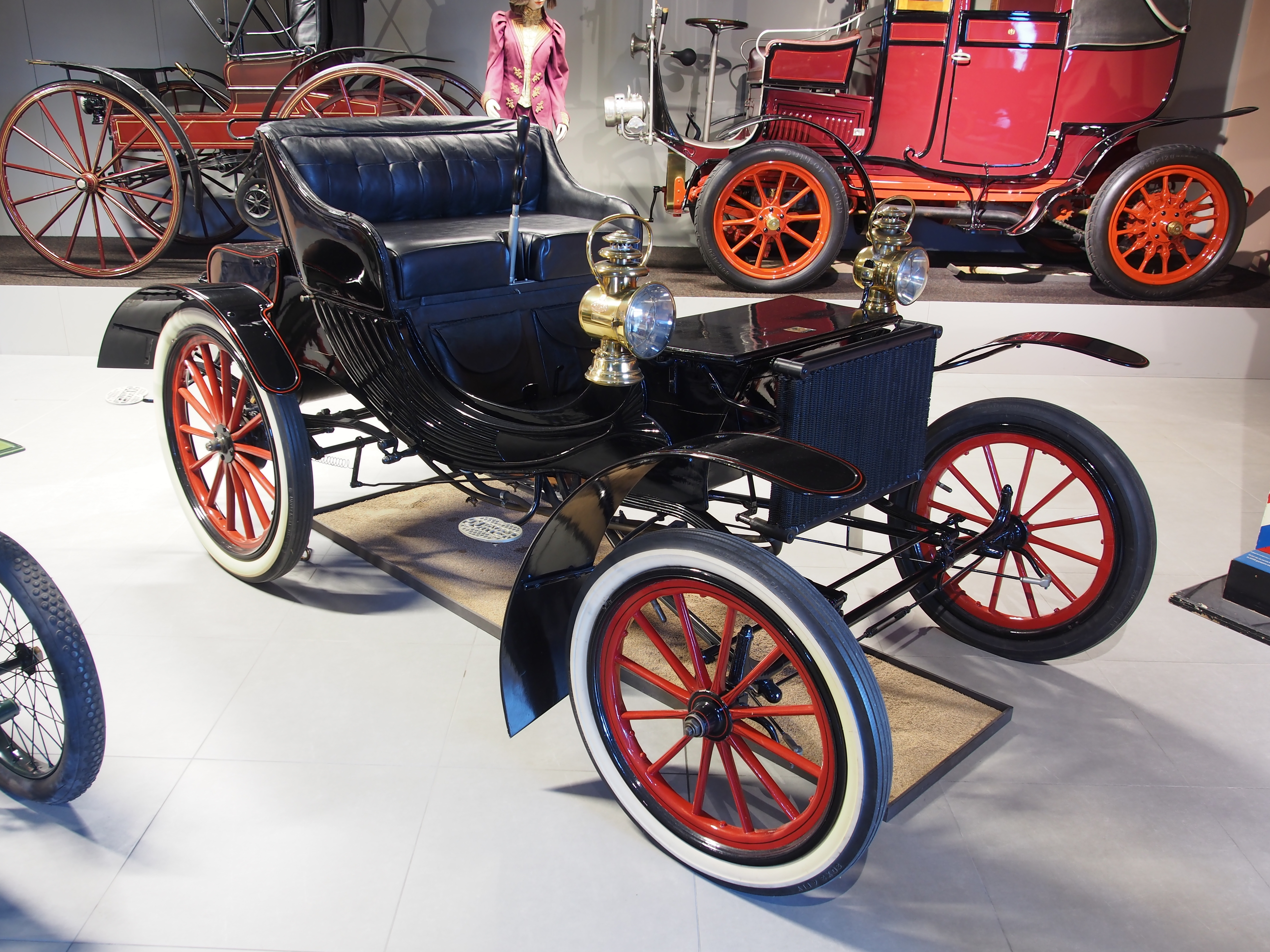 1903 Duryea 'Gasoline Surrey’ photographed at the Louwman museum.